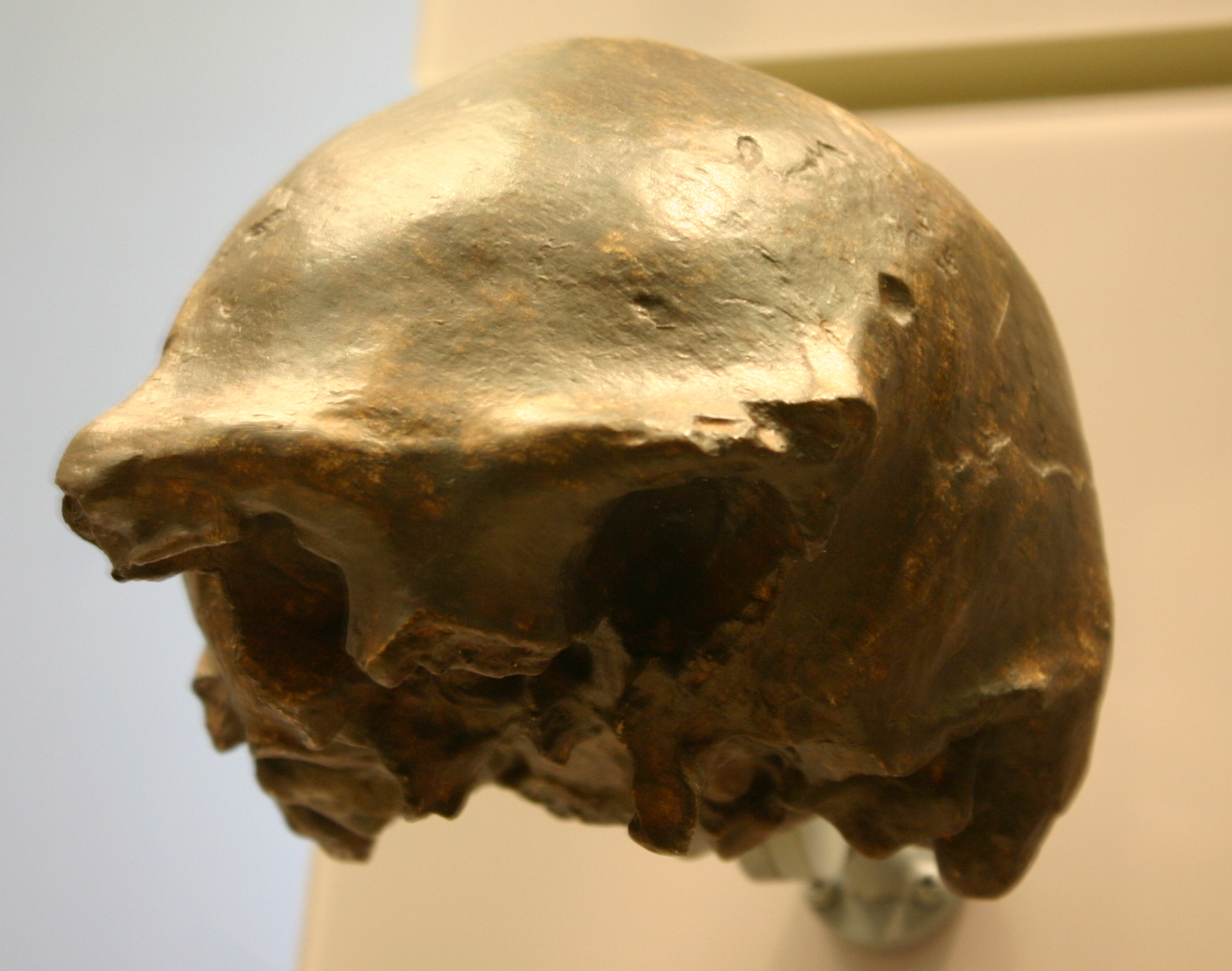 Taken at the David H. Koch Hall of Human Origins at the Smithsonian Natural History Museum.